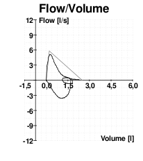 Flow Volume Curve from a spirometry test from a patient with asthma